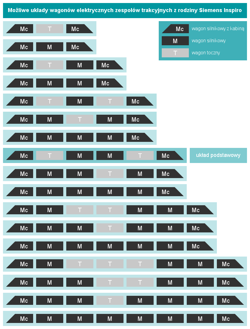 Trainset configuration options for the Siemens Inspiro family, where "Mc" indicates a powered ("motor") carriage equipped with a driver's control position, "M" a powered carriage without a control position, and "T" an unpowered ("trailer") carriage.